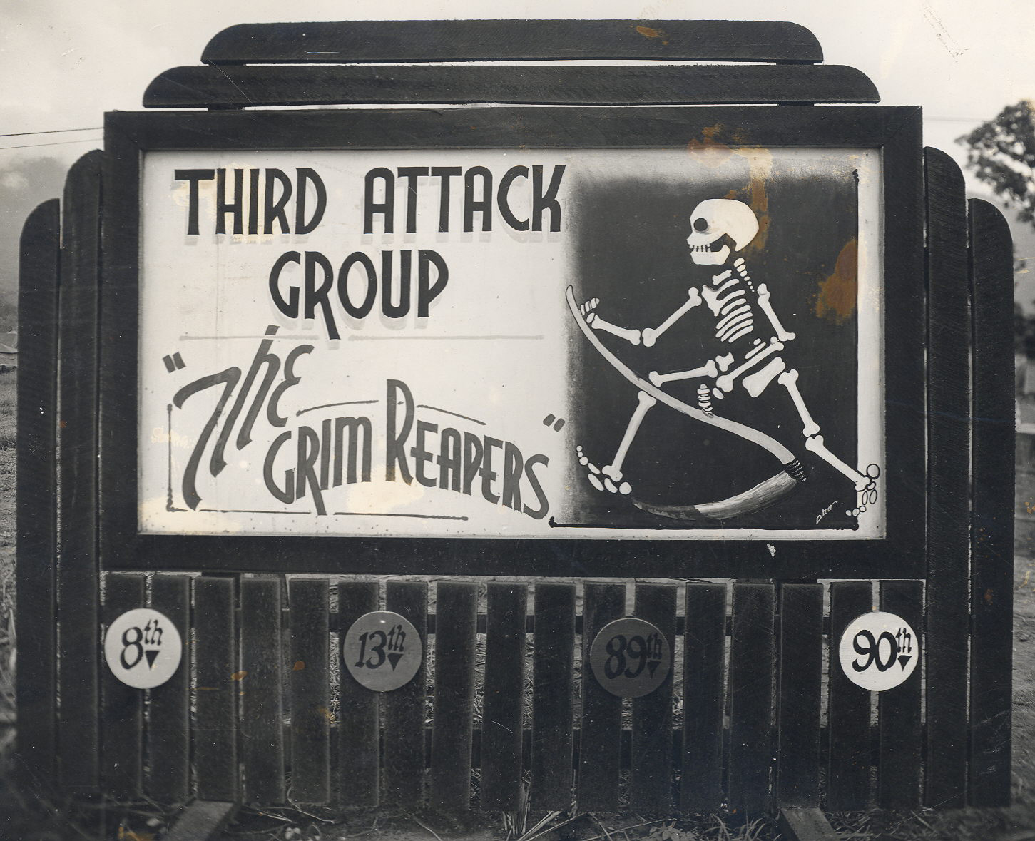 At Nadzab, the 3rd Attack Group, displayed its Grim Reaper logo, was able to have all four squadrons based at the same airfield. (Photo courtesy of 3rd Wing History Office)